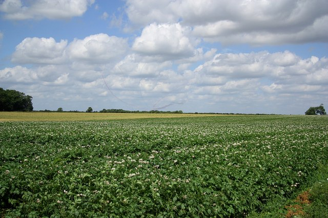 Lincolnshire potatoes A field of potatoes near Ashby de la Launde ...... whilst on the horizon, the Red Arrows perform a display at Waddington Air Show